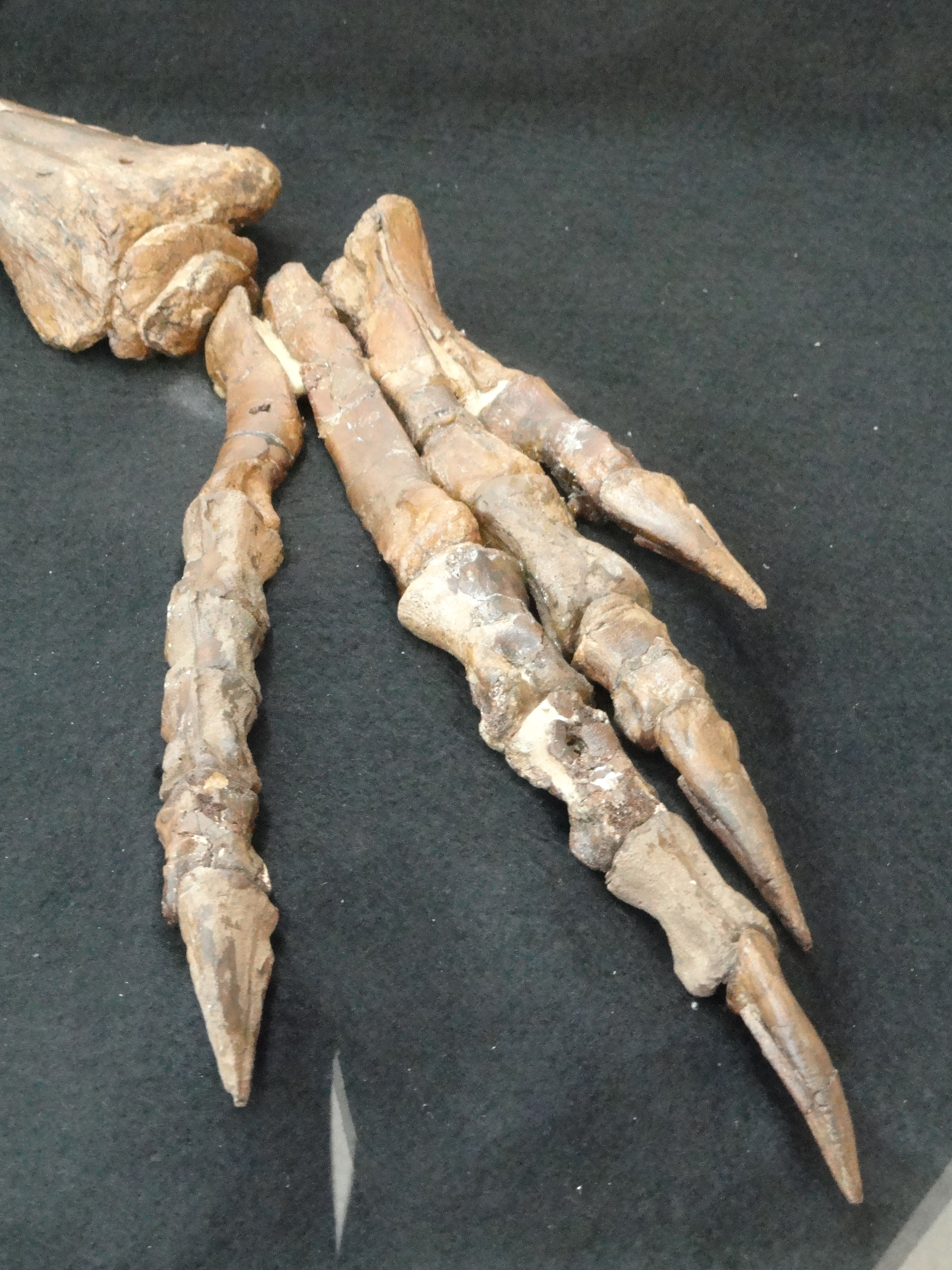 Exhibit in the Royal Ontario Museum, Toronto, Ontario, Canada. This exhibit is old enough so that it is in the public domain, and photography was permitted in the museum. I took this photograph and release it into the public domain.